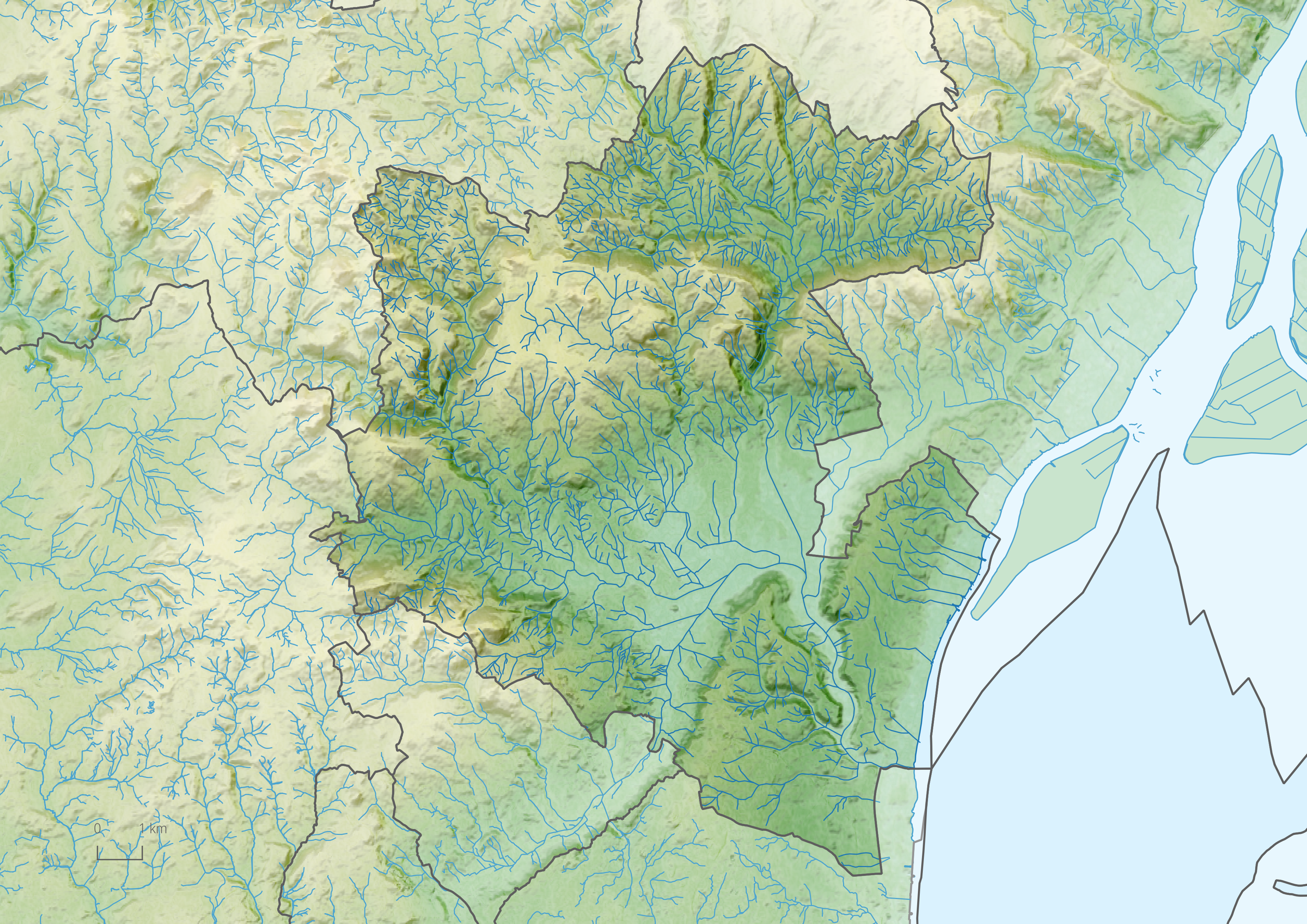 Relief map of Loures, Portugal, complete with administrative boundaries, as well as streams and rivers.